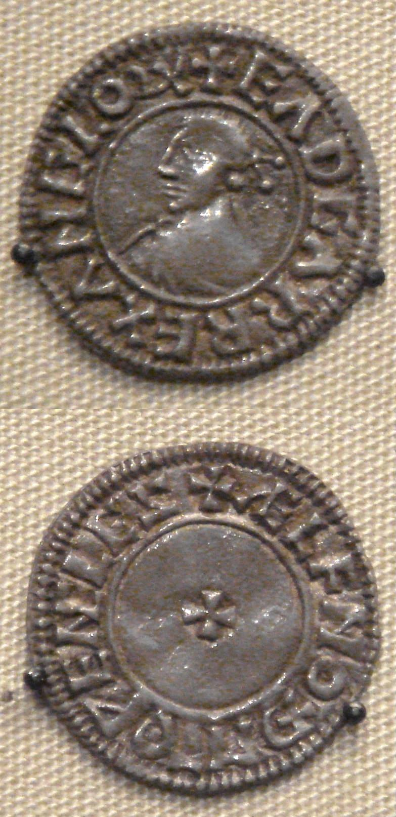 Edgard_king_of_England_959_975